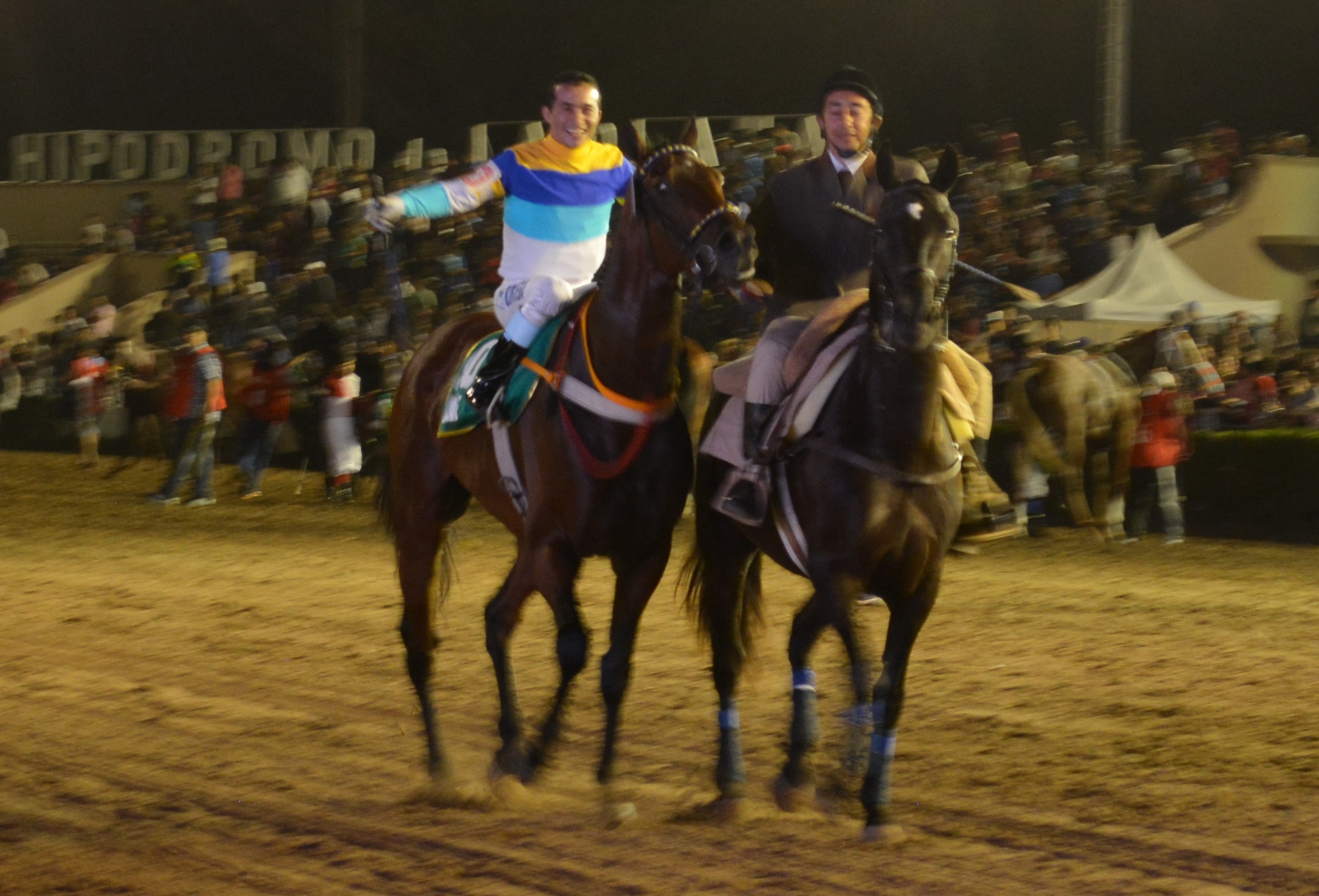 PSC Keane